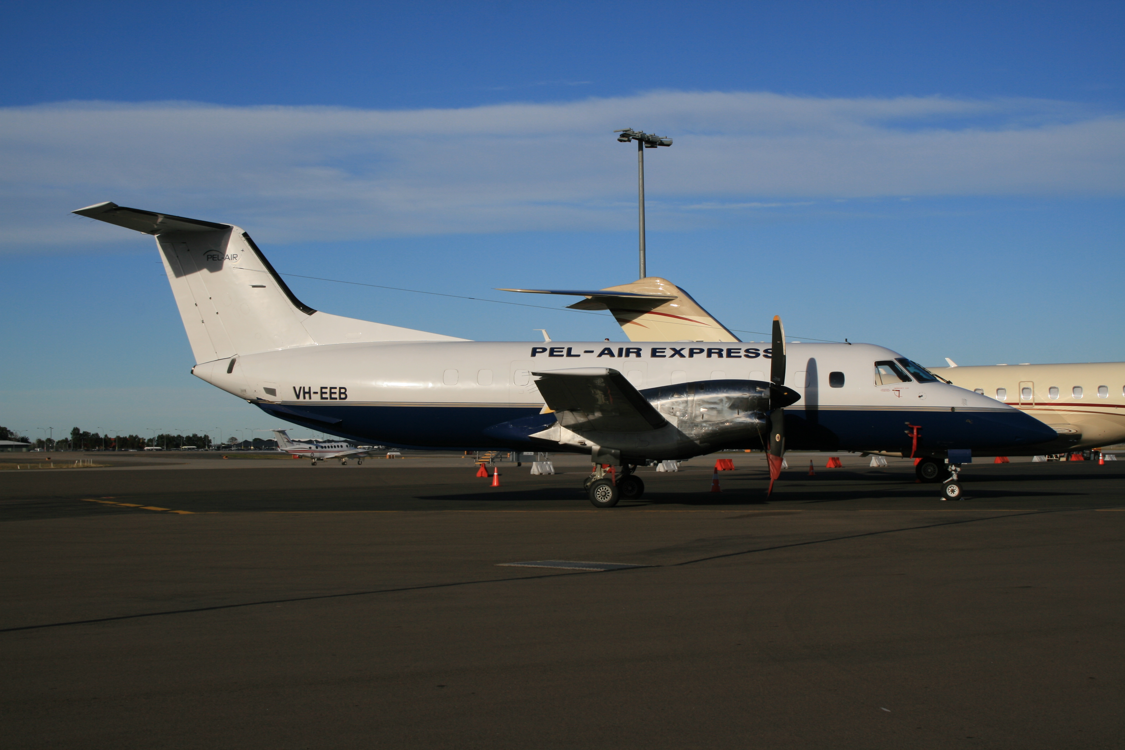 Pel-Air operate a single EMB-120 Brasilia freighter on subcontract to Pacific Aviation, carrying Fairfax Media newspapers between Sydney and Brisbane each night. The aircraft is not used during daylight and is parked at either Brisbane Airport or Sydney Airport. Pel-Air's EMBRAER Brasilia freighter at Sydney Airport August 4 2007. Digital photo taken by YSSYguy for use in article about Pel-Air.